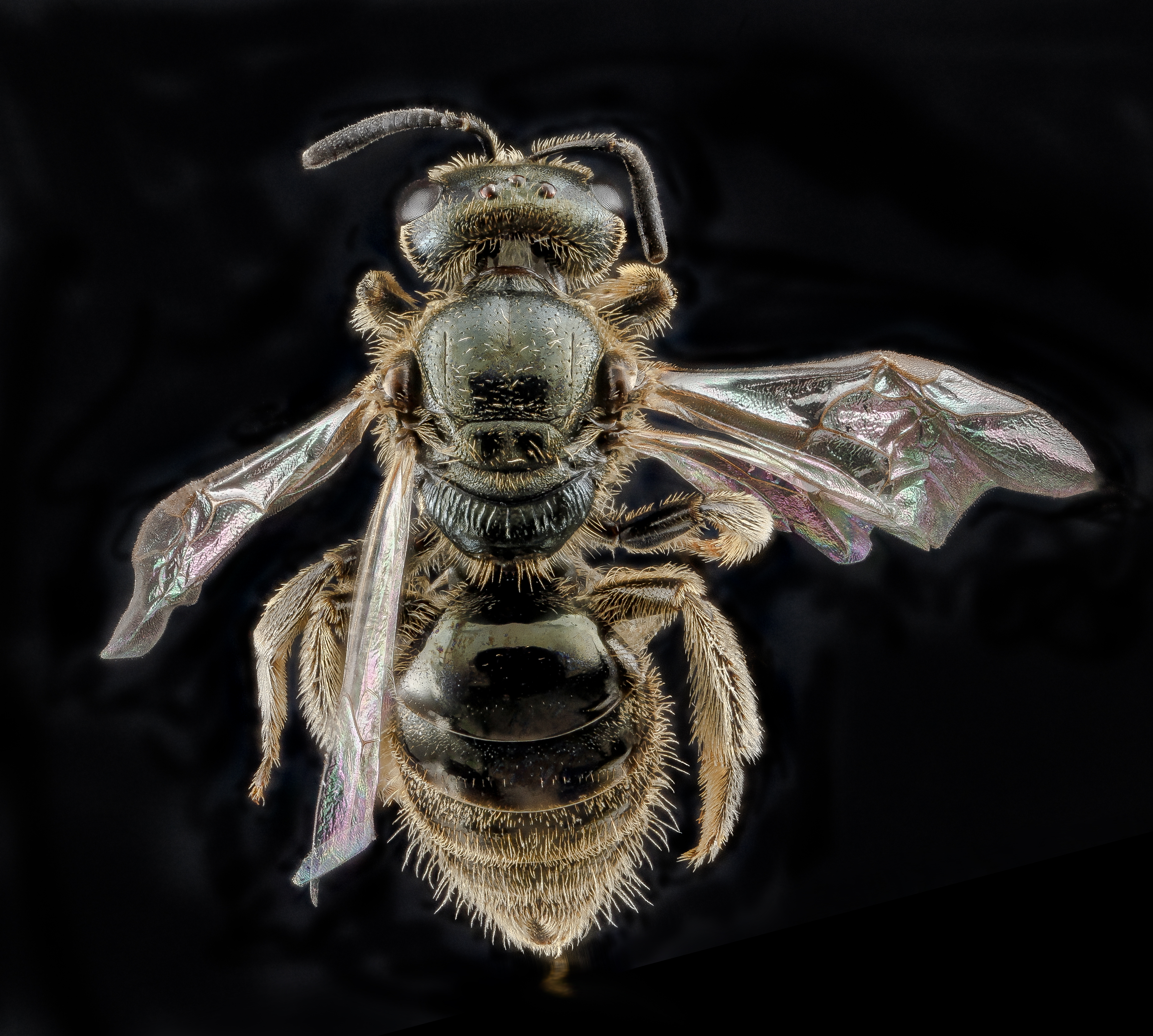 Lasioglossum lineatulum is defined in my mind by having relatively few pits on its scutum, a shinyish abdomen, and long straitions on the propodeal triangle. Otherwise it looks similar to the 100 plus other species in the group. This one was captured on Sleeping Bear Dunes National Lakeshore in Michigan. Pictures taken by Sierra Williams, photoshopping by Elizabeth Garcia. 03:06, 11 April 2016 (UTC)03:06, 11 April 2016 (UTC) 0 03:06, 11 April 2016 (UTC)03:06, 11 April 2016 (UTC) All photographs are public domain, feel free to download and use as you wish. Photography Information: Canon Mark II 5D, Zerene Stacker, Stackshot Sled, 65mm Canon MP-E 1-5X macro lens, Twin Macro Flash in Styrofoam Cooler, F5.0, ISO 100, Shutter Speed 200 Beauty is truth, truth beauty - that is all Ye know on earth and all ye need to know " Ode on a Grecian Urn" John Keats You can also follow us on Instagram account USGSBIML Want some Useful Links to the Techniques We Use? Well now here you go Citizen: Art Photo Book: Bees: An Up-Close Look at Pollinators Around the World Basic USGSBIML set up: USGSBIML Photoshopping Technique: Note that we now have added using the burn tool at 50% opacity set to shadows to clean up the halos that bleed into the black background from "hot" color sections of the picture. PDF of Basic USGSBIML Photography Set Up: ftp://ftpext.usgs.gov/pub/er/md/laurel/Droege/How%20to%20Take%20MacroPhotographs%20of%20Insects%20BIML%20Lab2.pdf Google Hangout Demonstration of Techniques: or Excellent Technical Form on Stacking: Contact information: Sam Droege 301 497 5840